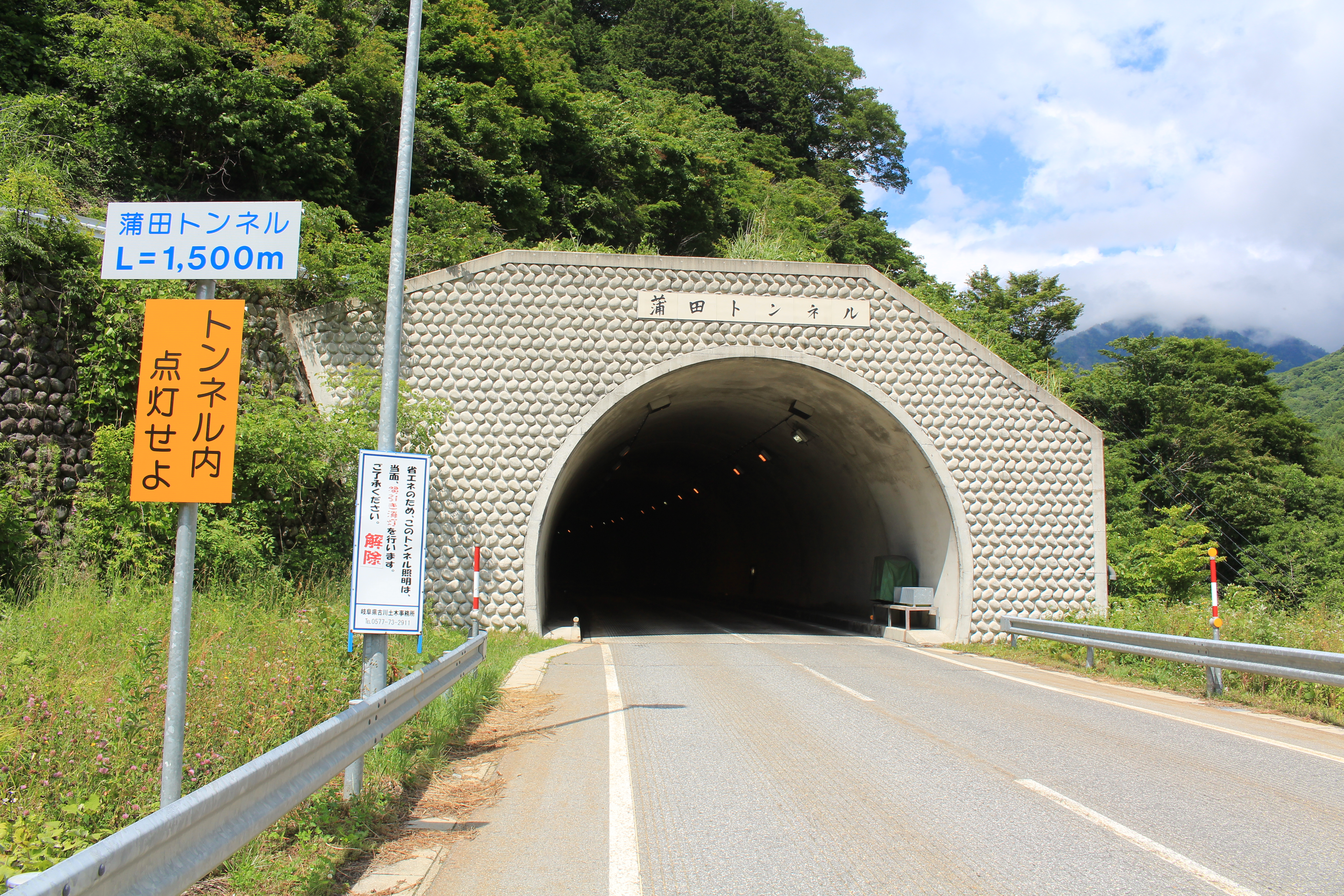 Gamata tunnel of Gifu Prefectural Road Route 475 in Takayama, Gifu prefecture, Japan.